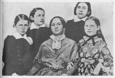 Czech writer Božena Němcová with her children in 1852